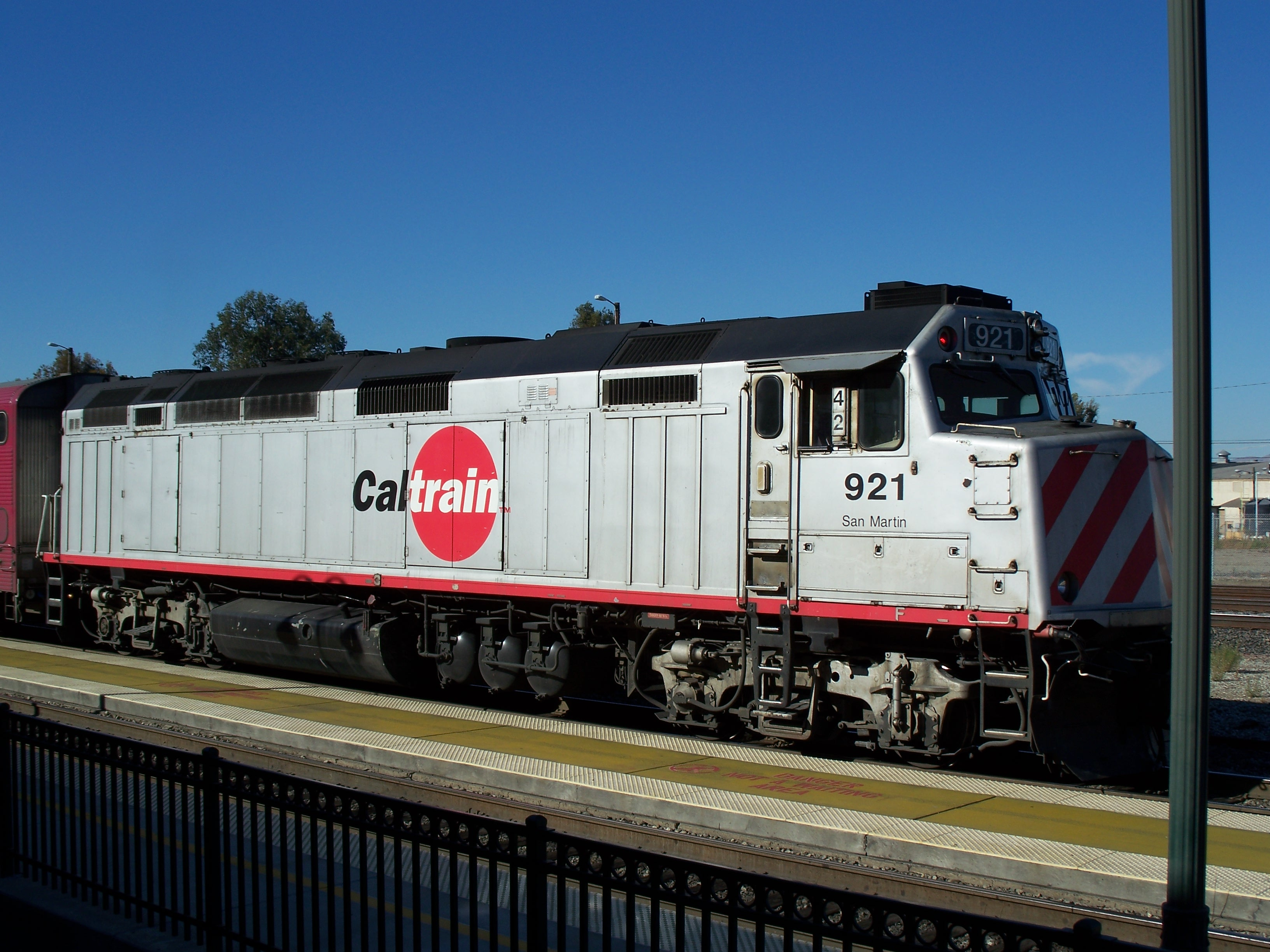 Caltrain diesel Locomotive 921 in Santa Clara, California, USA. If you know more details about subject model, please help to improve description.